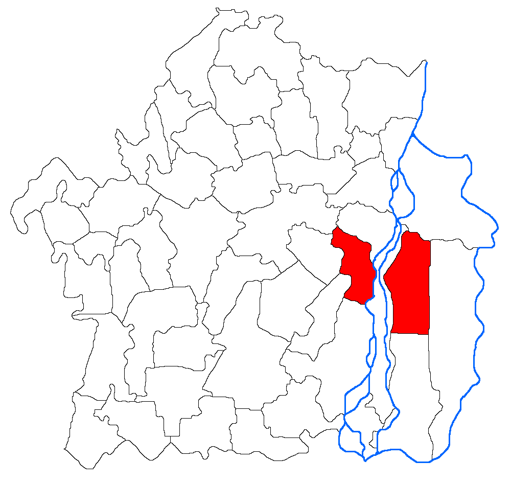 Limits of Commune of Gropeni in Braila County